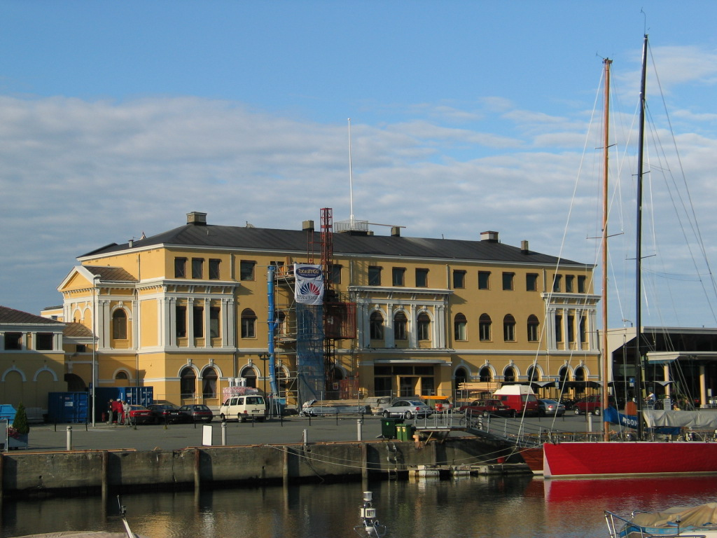 Train Station in Trondheim